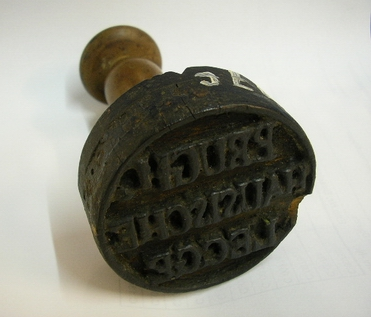 Leggestempel für Leinwand aus Bruchhausen, Holz, 19. Jahrhundert, Focke-Museum Bremen, Inv.Nr. C.0077c